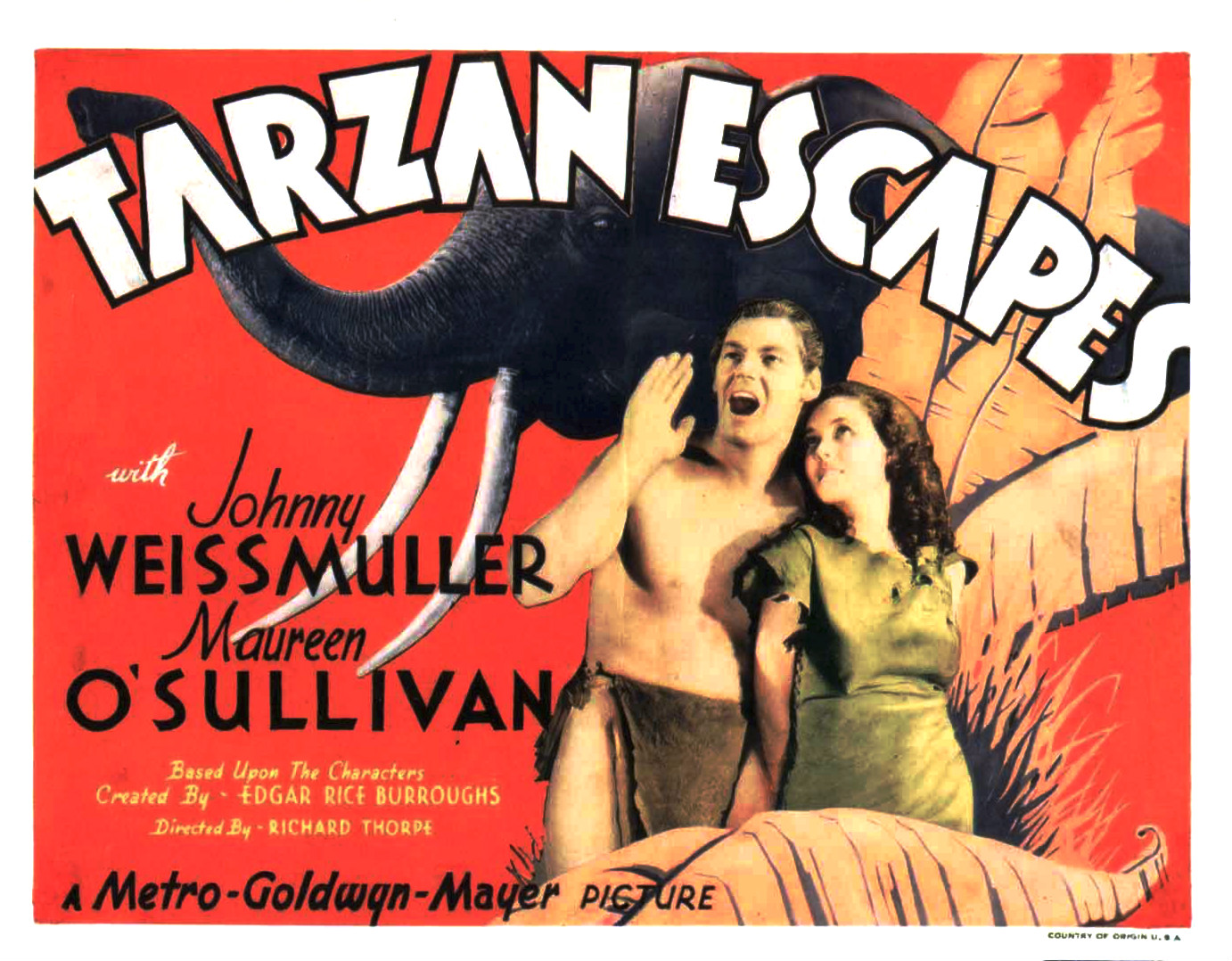 Lobby card for the American film Tarzan Escapes (1936). The item has no copyright markings on it as can be seen in the links above. at bottom right is Country of origin USA.